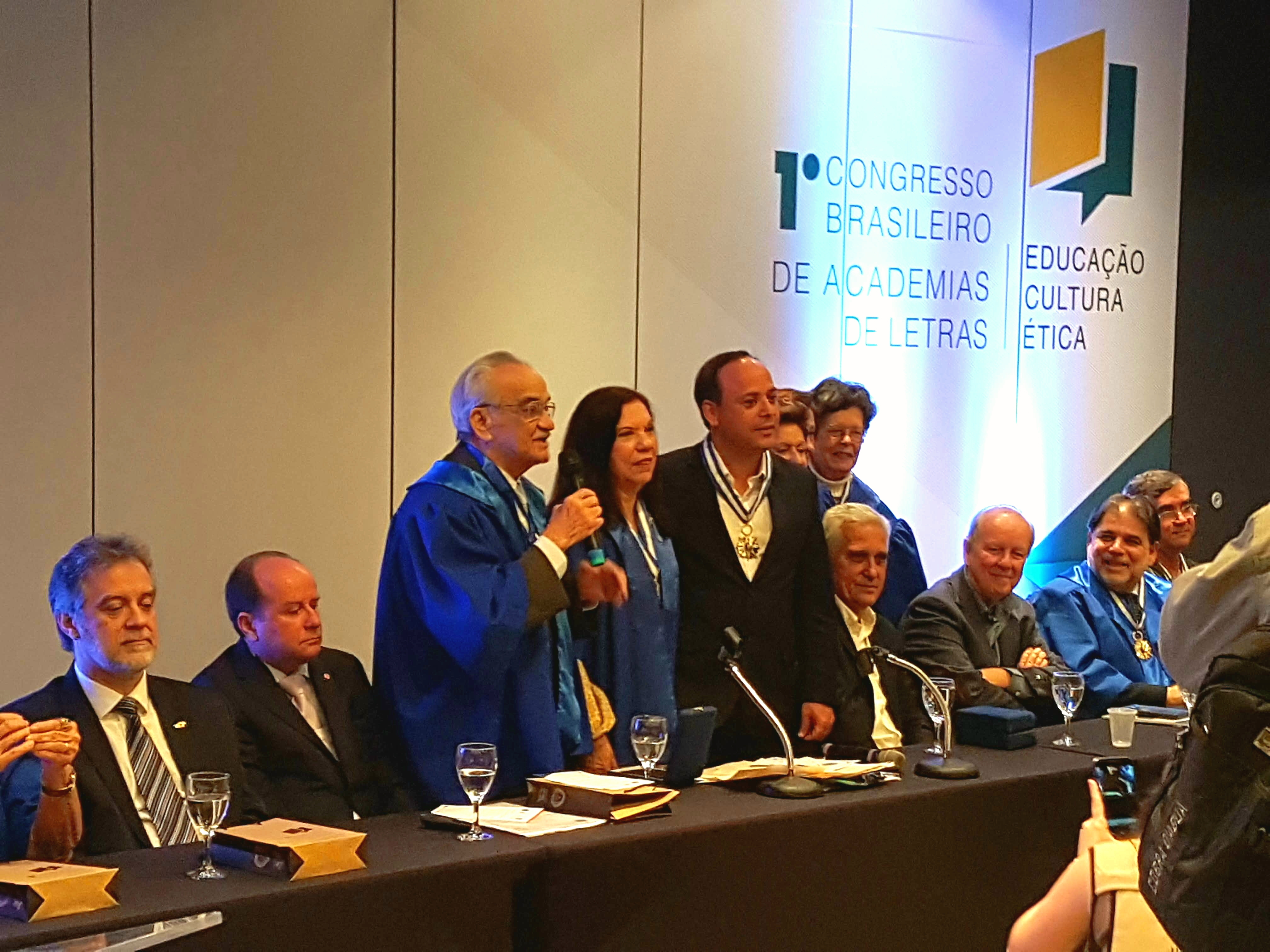 Abertura do I Congresso Brasileiro de Academias de Letras